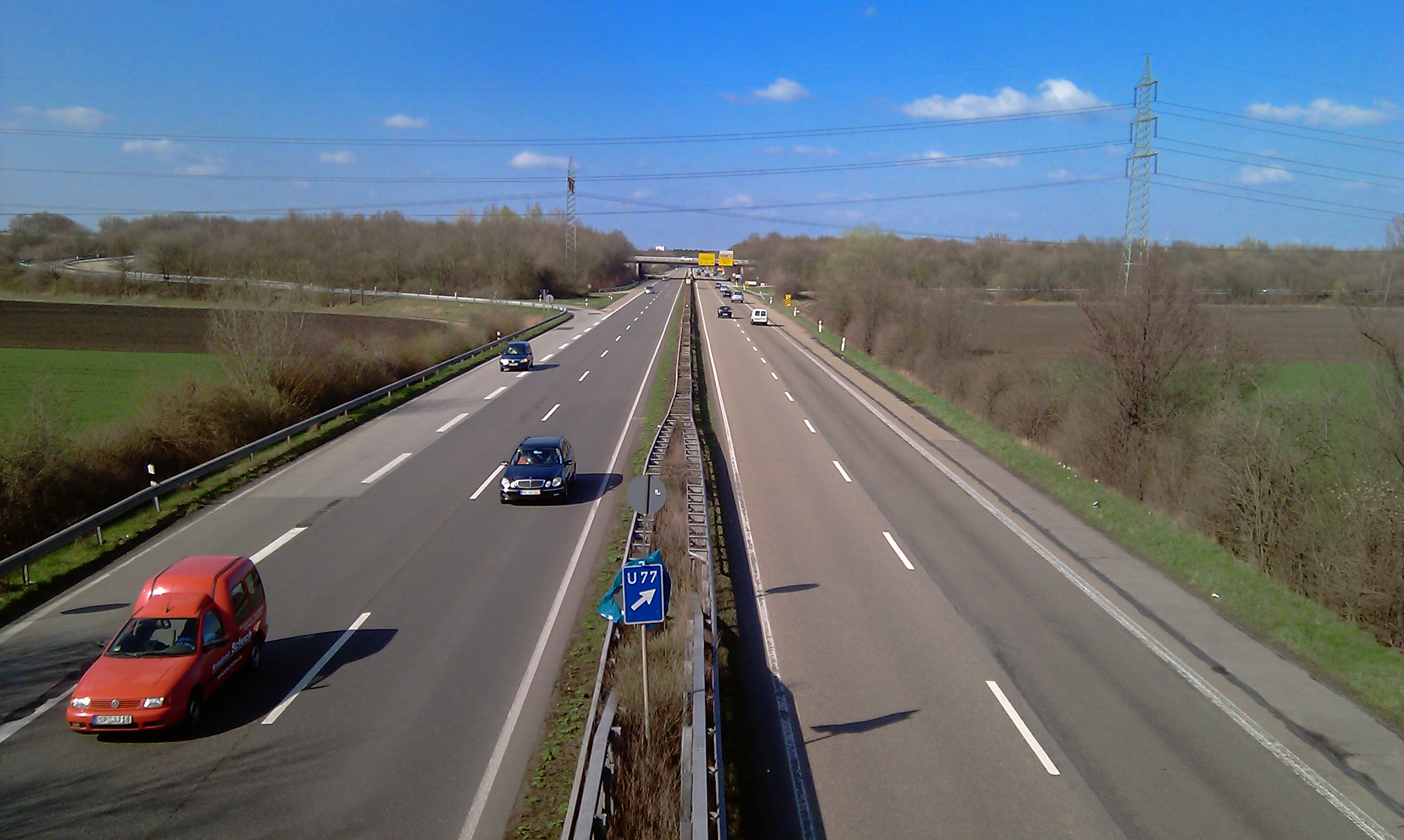 motorway interchange of the german federal roads 9 and 44